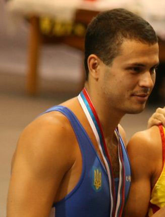 Juri Nikitin